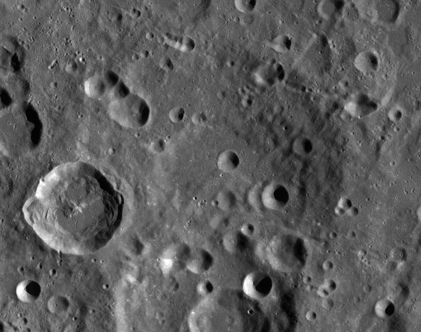 Paschen crater, on the far side of the moon. Mosaic of LRO WAC images.